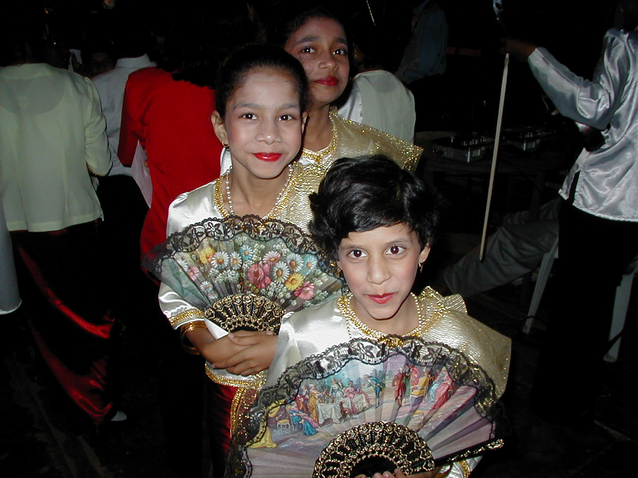 Singers of the Mando (Konkani folk music). Photo by Frederick Noronha. +91-9822122436